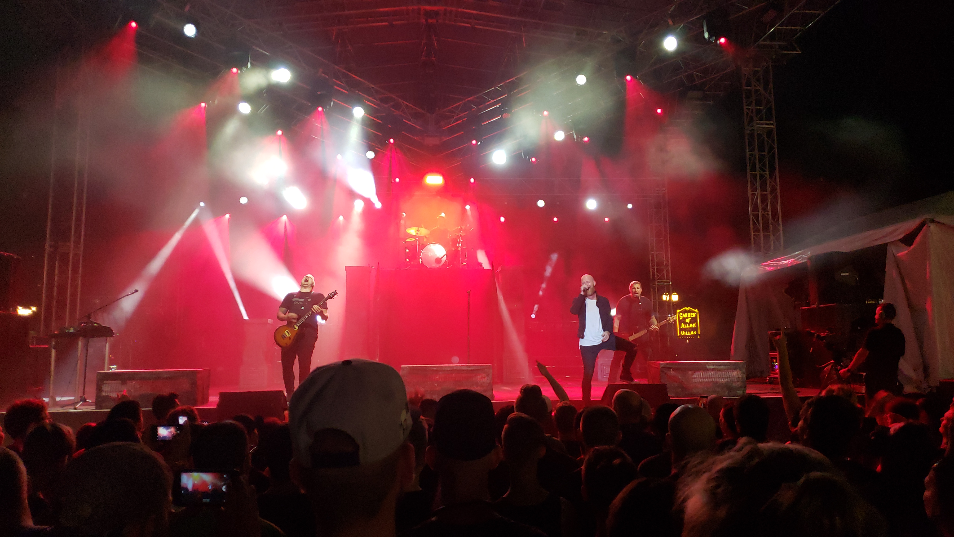 The American Christian Rock band Red performing at Rock the Universe 2018 at Universal Studios Florida in Orlando, Florida on September 7, 2018.